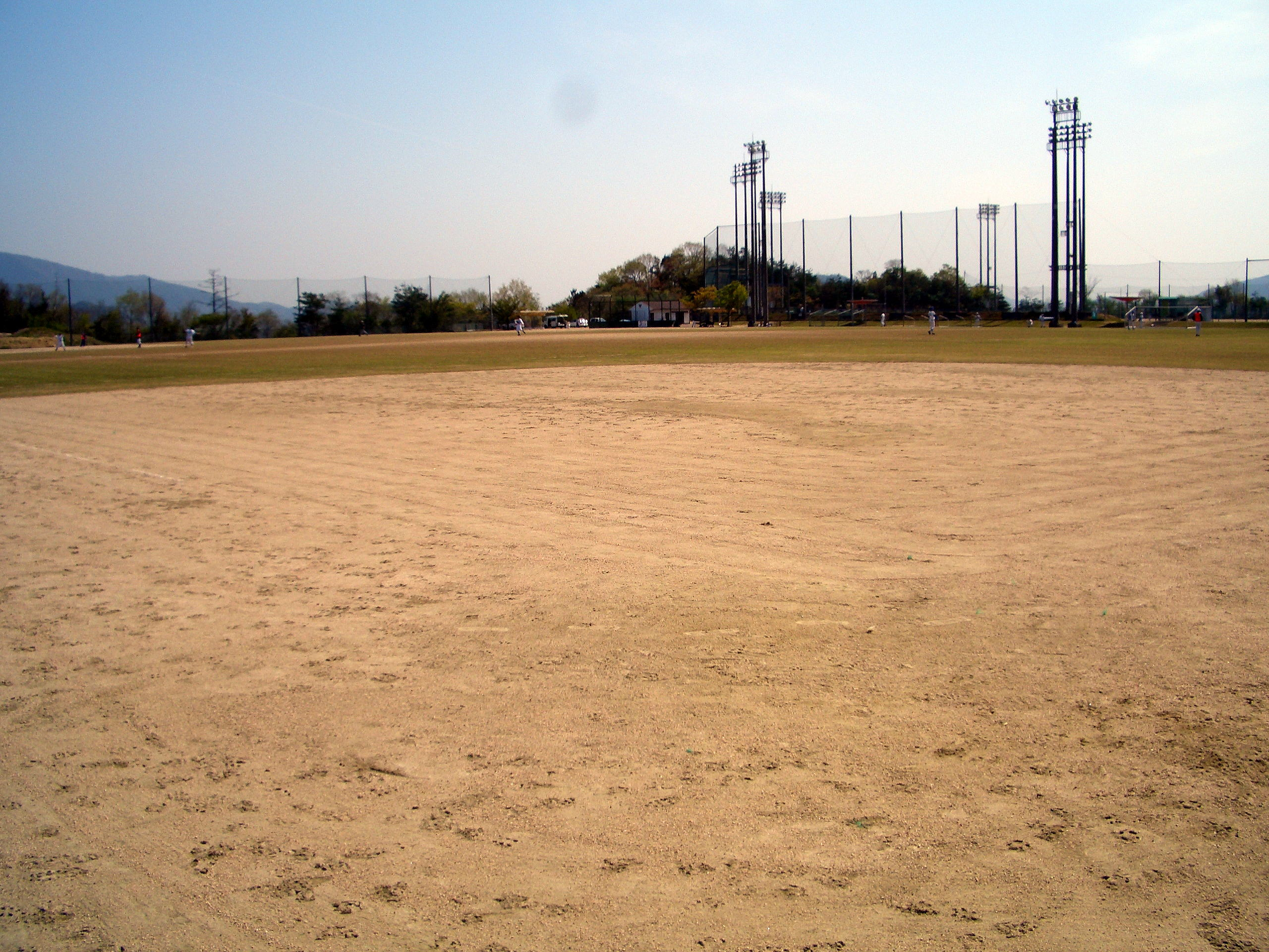 Kure-City SportsCenter Baseball ground,Kure-City,Japan